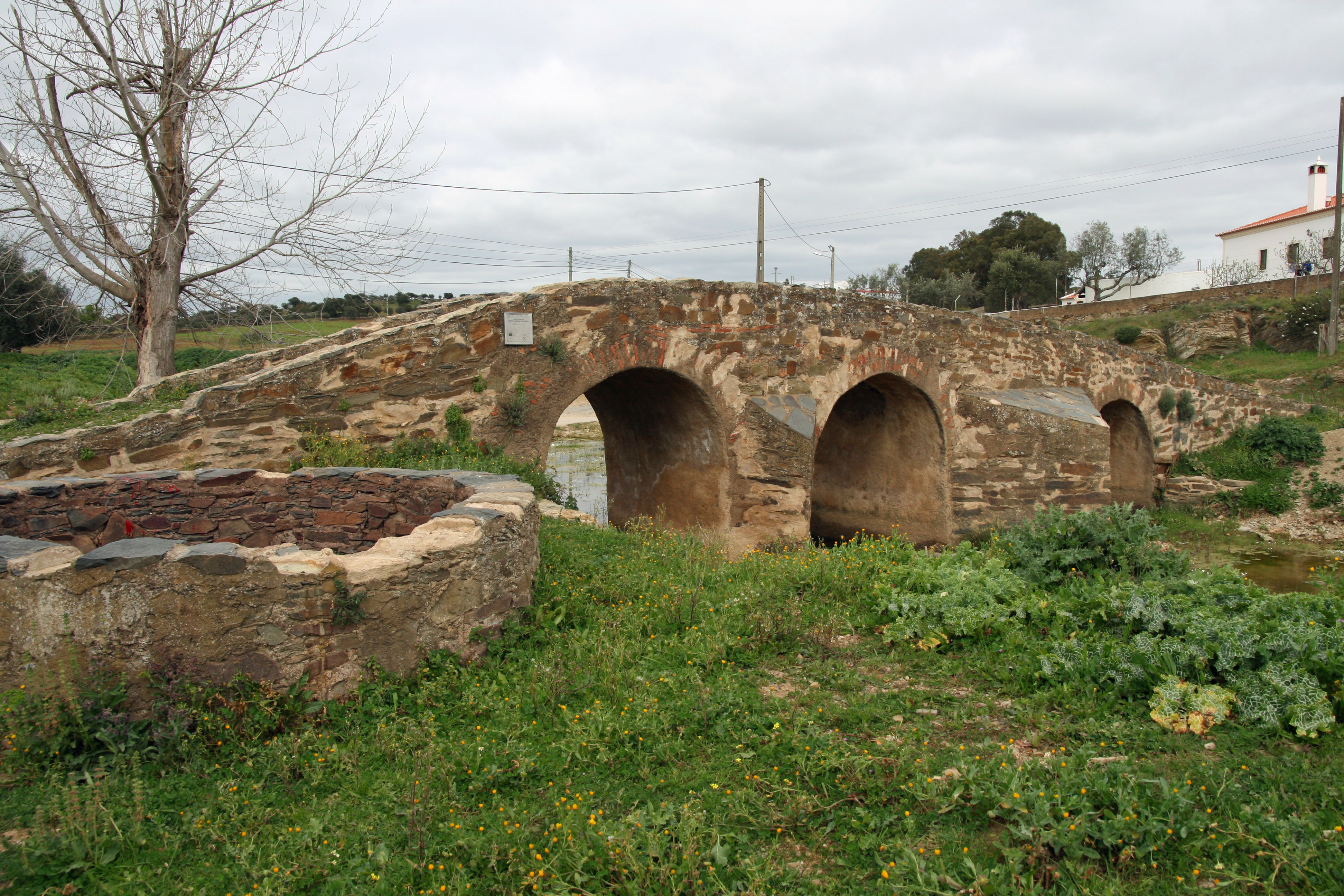 Roman bridge in Almodôvar